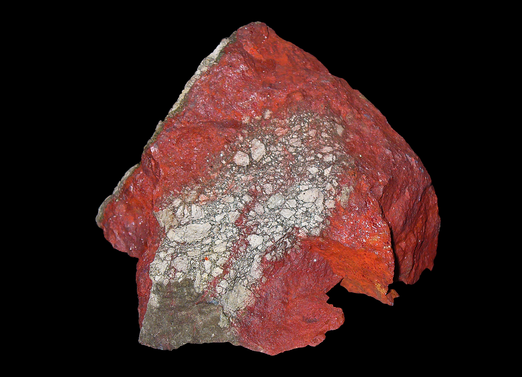 Cinnabar, Cinnabarite, HgS; Staatliches Museum für Naturkunde Karlsruhe, Germany. Used in homeopathy as remedy: Cinnabaris (Cinnb.)